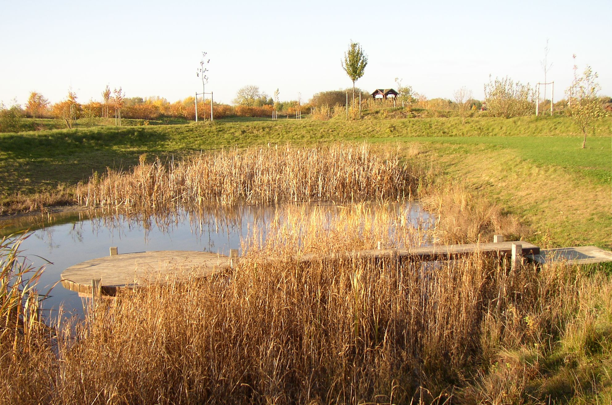 Park area called Naturerlebnisraum Wendtorf